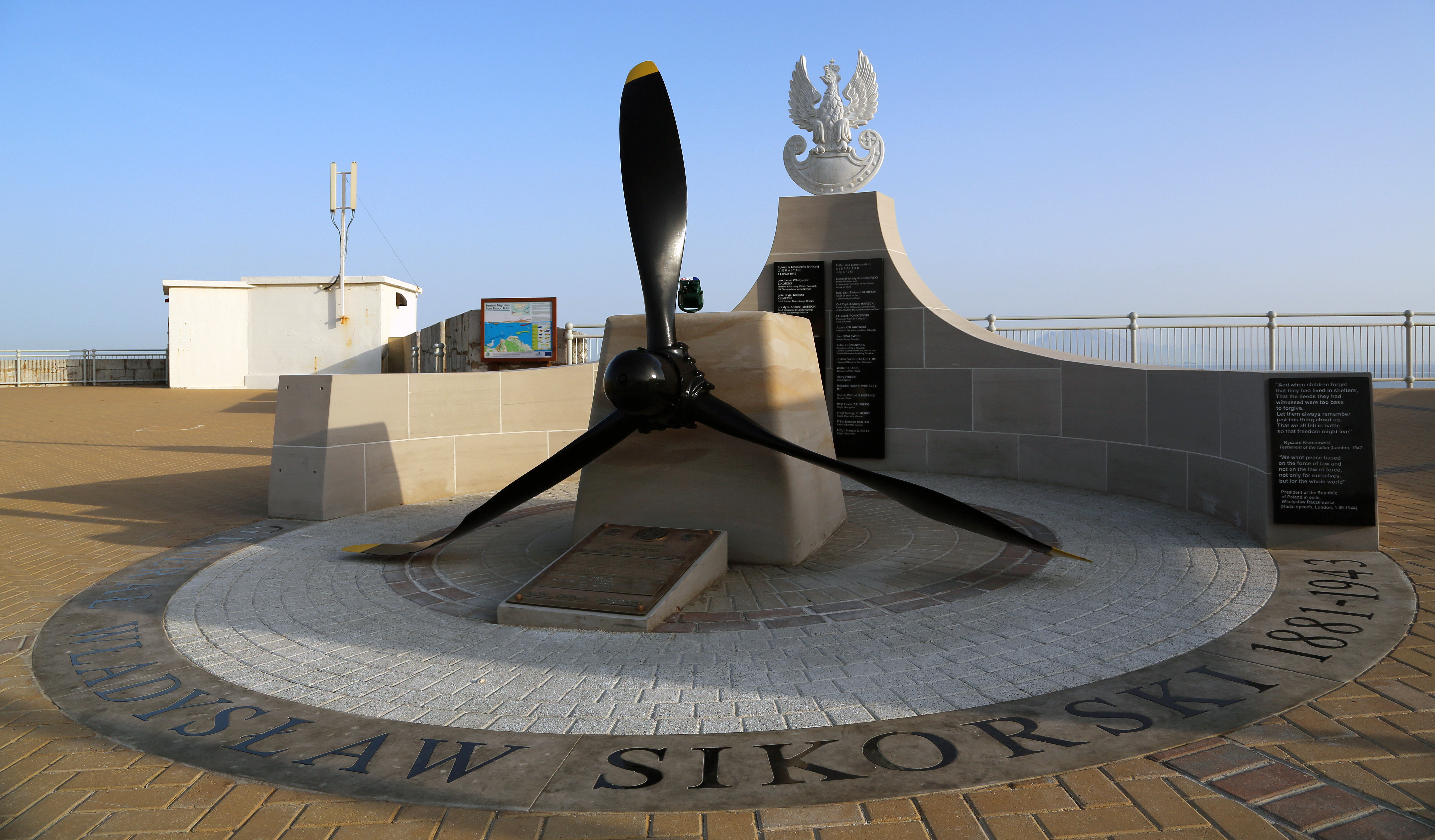 The Sikorski Memorial is dedicated to General Wladyslaw Sikorki, the commander-in-chief of the Polish Army and Prime Minister of Poland in exile who was killed in an air crash on the 4 July 1943. His plane had crashed into the sea 16 seconds after takeoff from Gibraltar Airport. This memorial has been recently been relocated here to Europa Point in the British overseas territory of Gibraltar. The memorial was dedicated again in its new position on the 4 July 2013 which was the 70 anniversary of the crashed B-24 aircraft and the death of the war time hero.